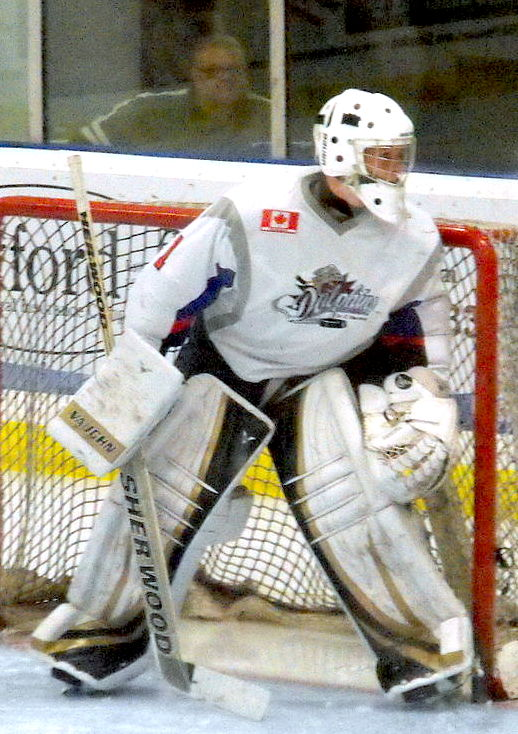 These images of SOJHL action during the 2013-14 season are taken by Devan Mighton.